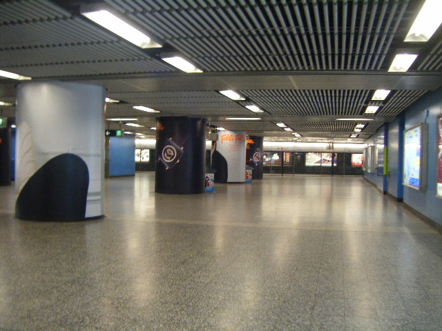 The Interchange Passageway in MTR Admiralty Station